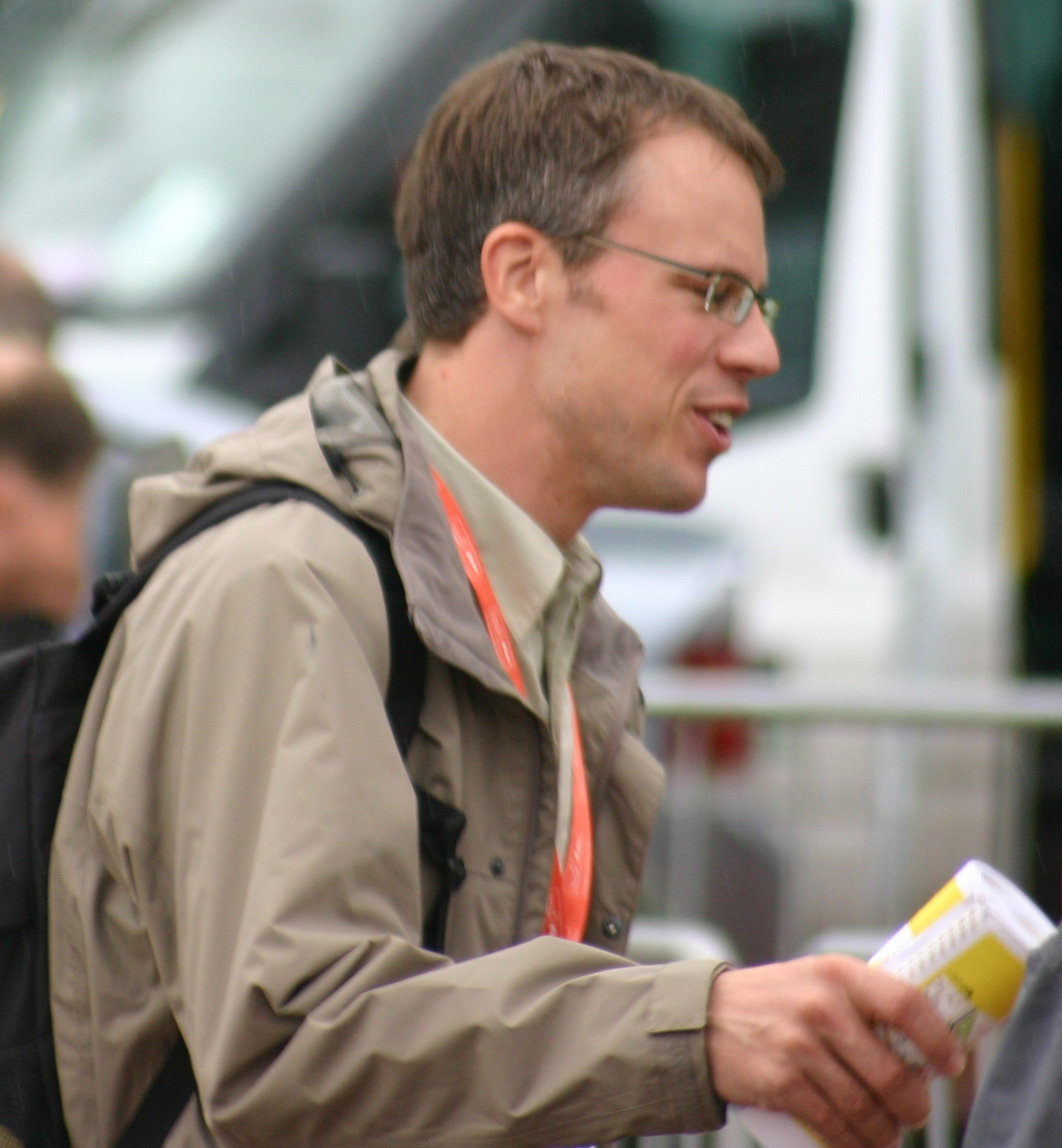 The Olympic gold medalist, Paul Manning